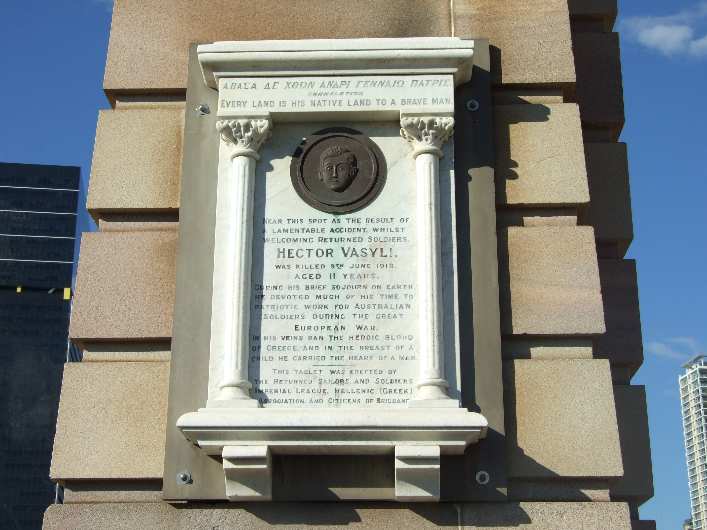 Memorial to Hector Vasyli on the southern abutment of the old Victoria Bridge in Brisbane